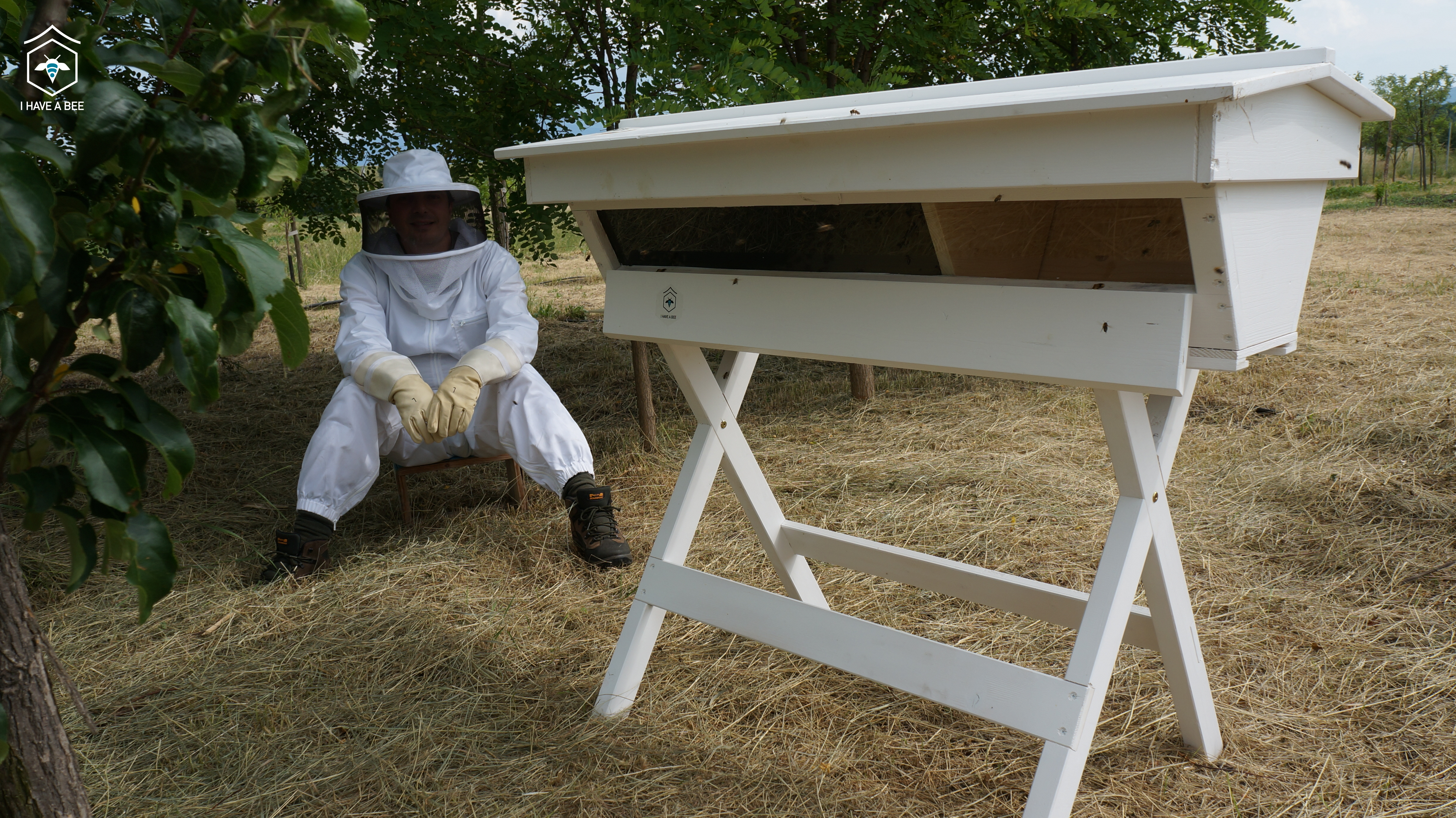 top bar hive